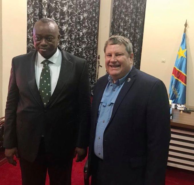 Governor of Kasai-Oriental Jean Maweja (left) meets with the United States Ambassador to the Democratic Republic of the Congo Mike "Tekemena" Hammer (right) in Mbuji-Mayi during the ambassador's first visit to Kasai-Oriental province.